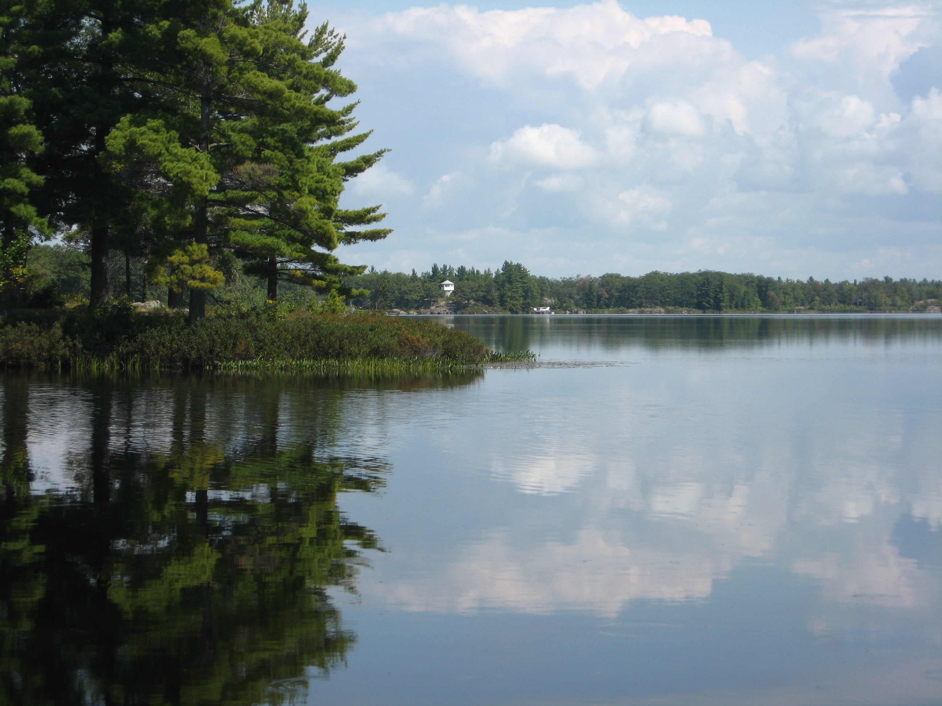 An aerodrome near Orillia, Ontario, Canada